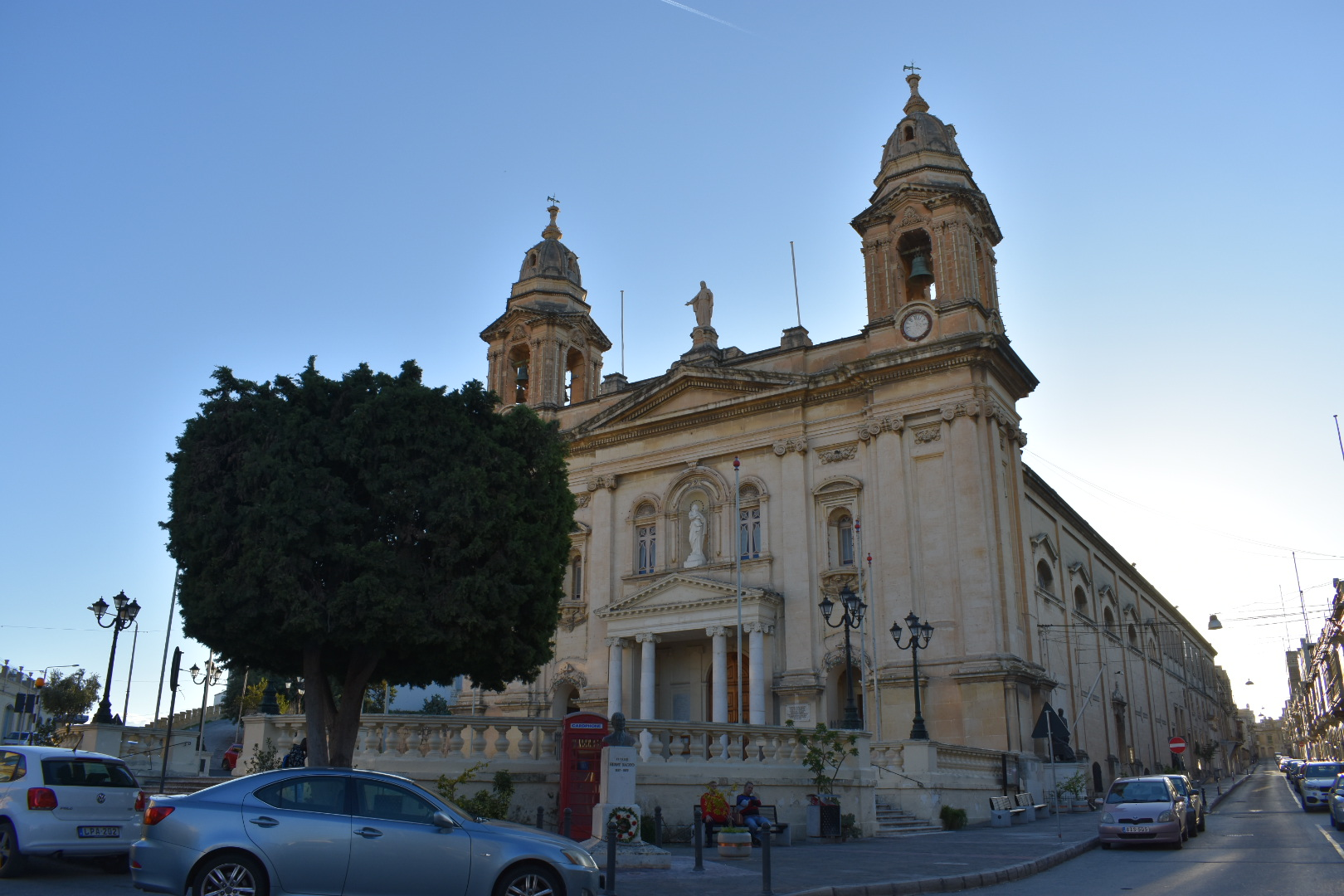 Marsa